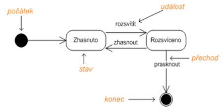 Bulb lifecycle